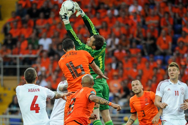 UEFA Euro 2012 match between Netherlands and Denmark that took place in Kharkiv. Final result was 0:1 (Krohn-Delhi)